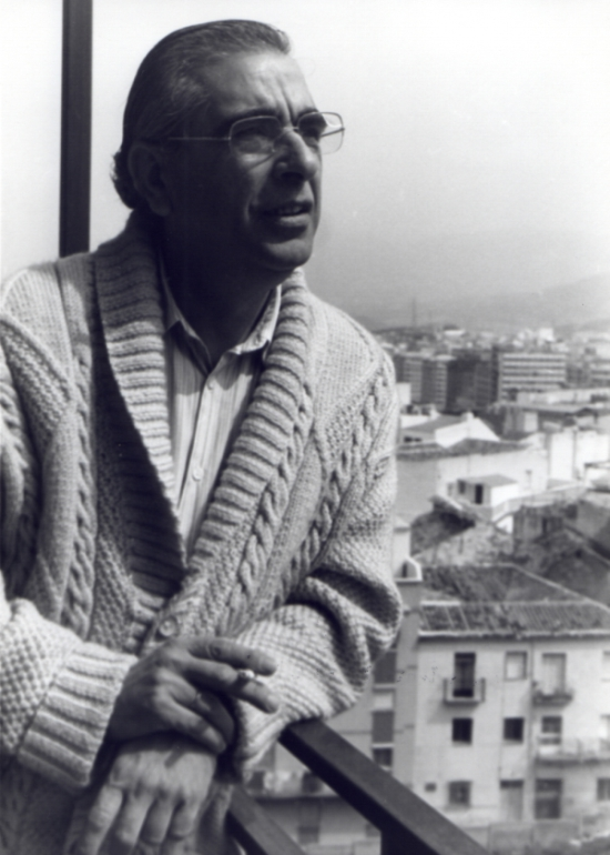 Painter Fausto Olivares at home in Jaén